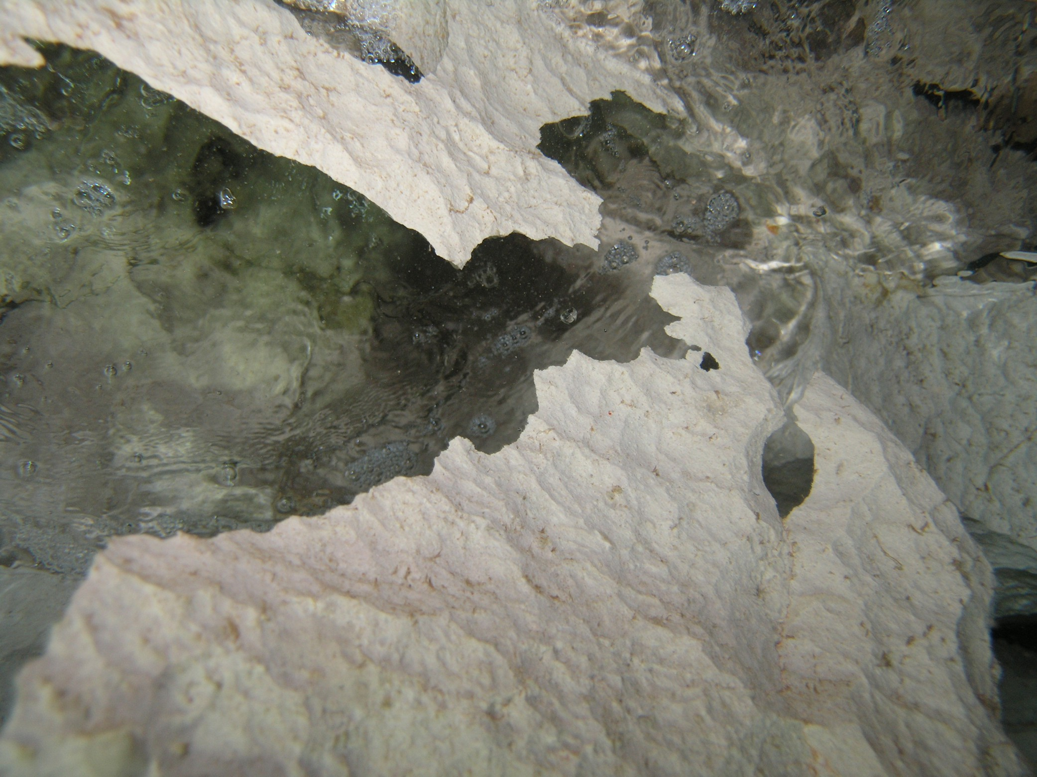 Knife shaped limestone in Ghost Cave Alghero